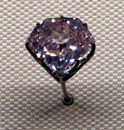 Crown jewels of France (gallery of Apollo)